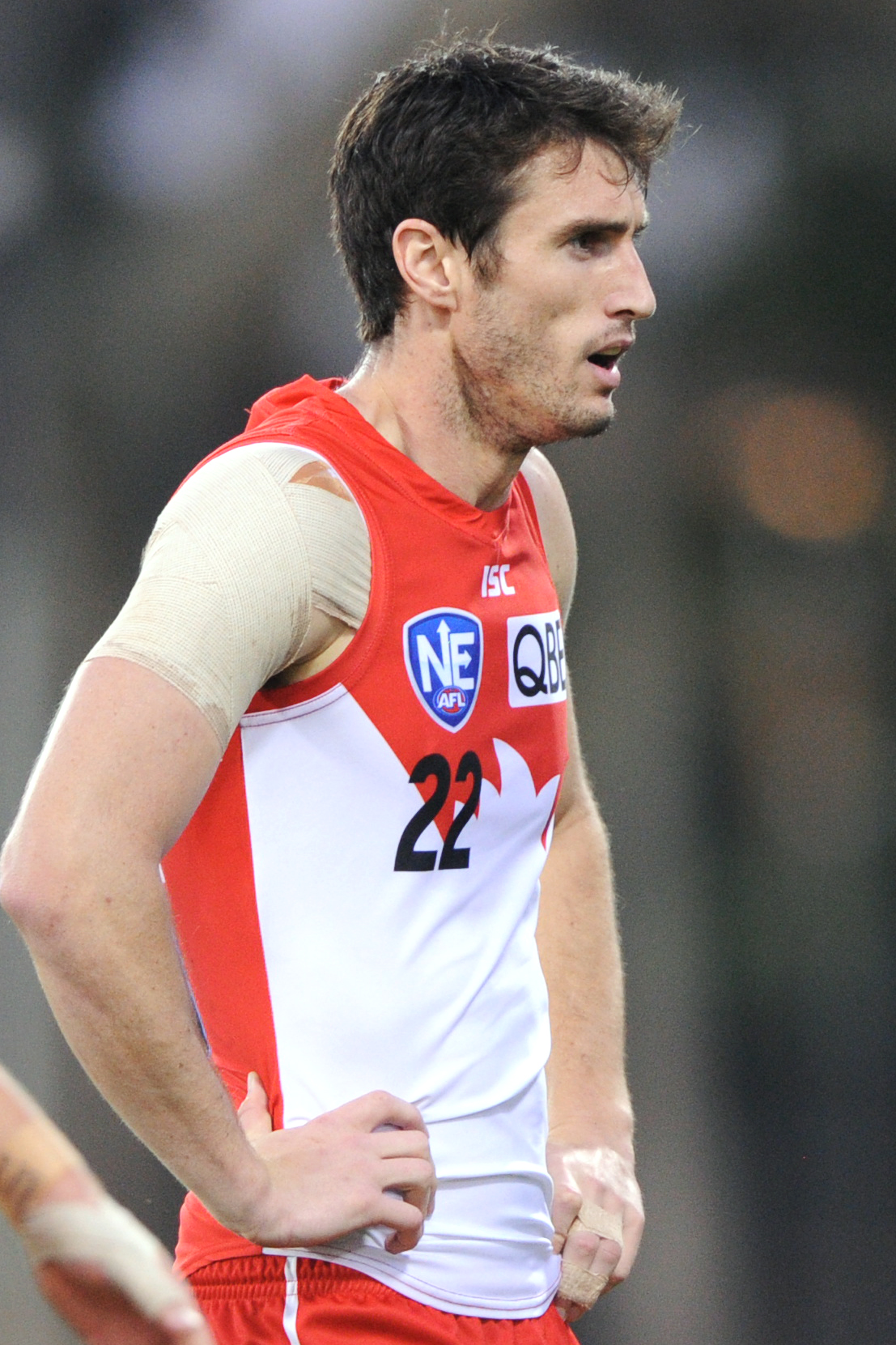 Dean Towers of Sydney during the 2018 NEAFL round 15 match between NT Thunder and Sydney at TIO Stadium on Saturday, 14 July 2018 in Darwin, Northern Territory.